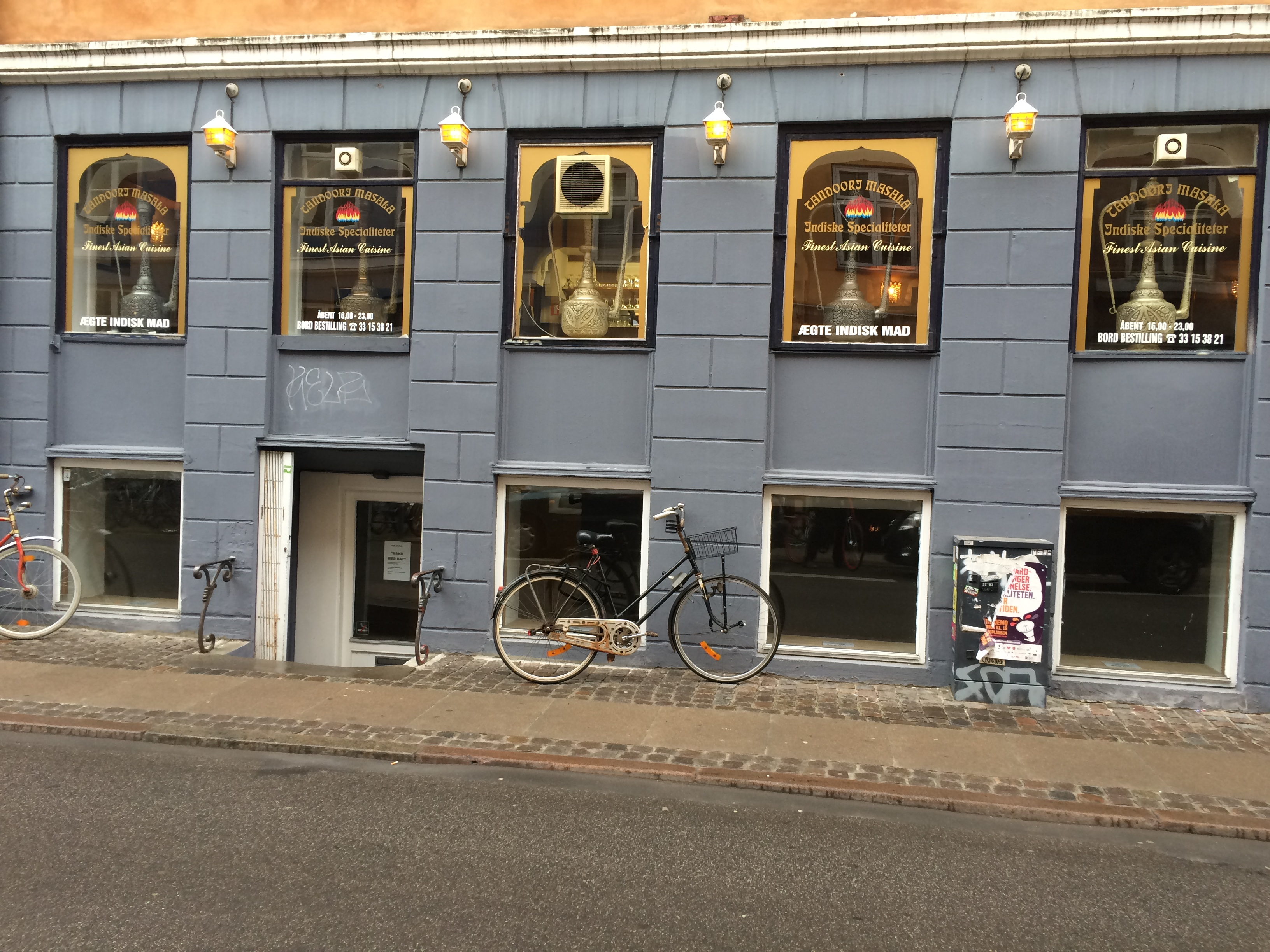 Gry Record Store was located in this basement, Sankt Peders Stræde, Copenhagen, Denmark